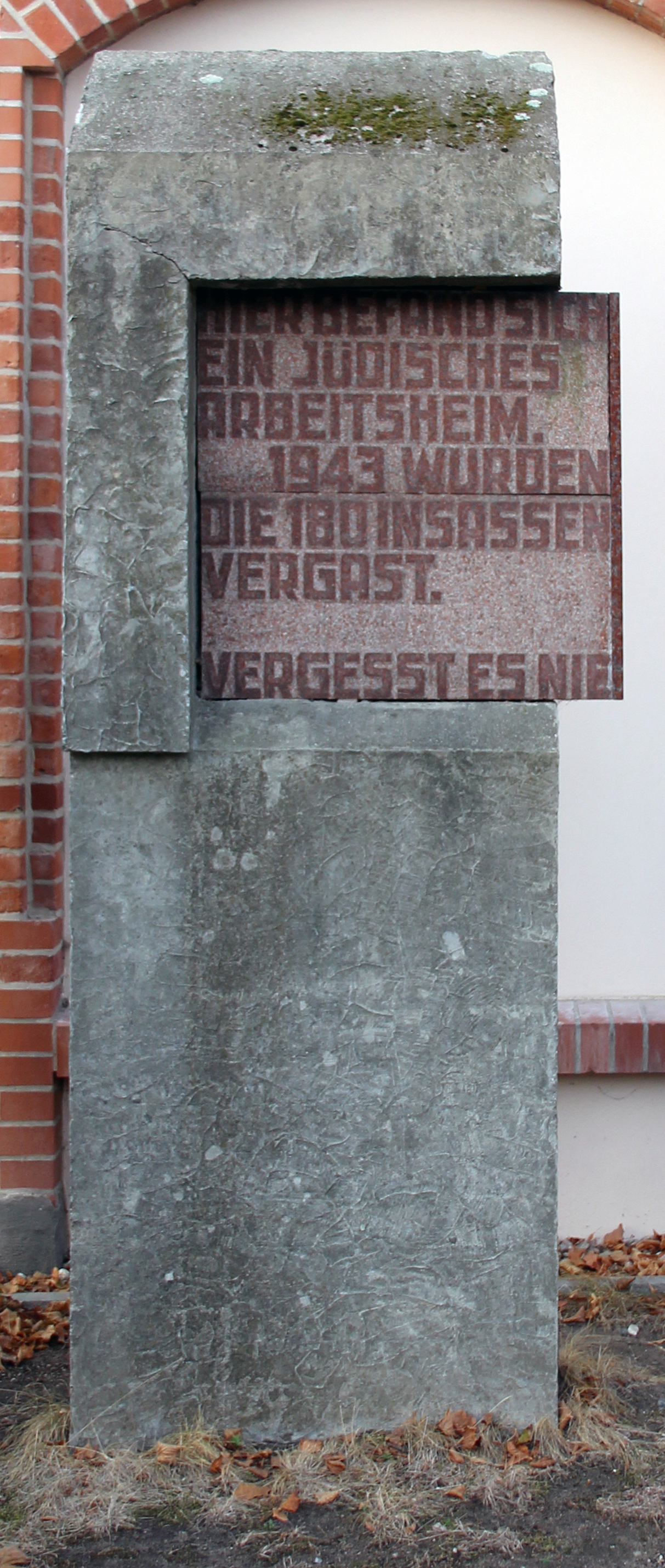 Memorial plaque, Jüdisches Arbeitsheim by Josef Höhn, 1980, Smetanastraße 53, Berlin-Weißensee, Deutschland